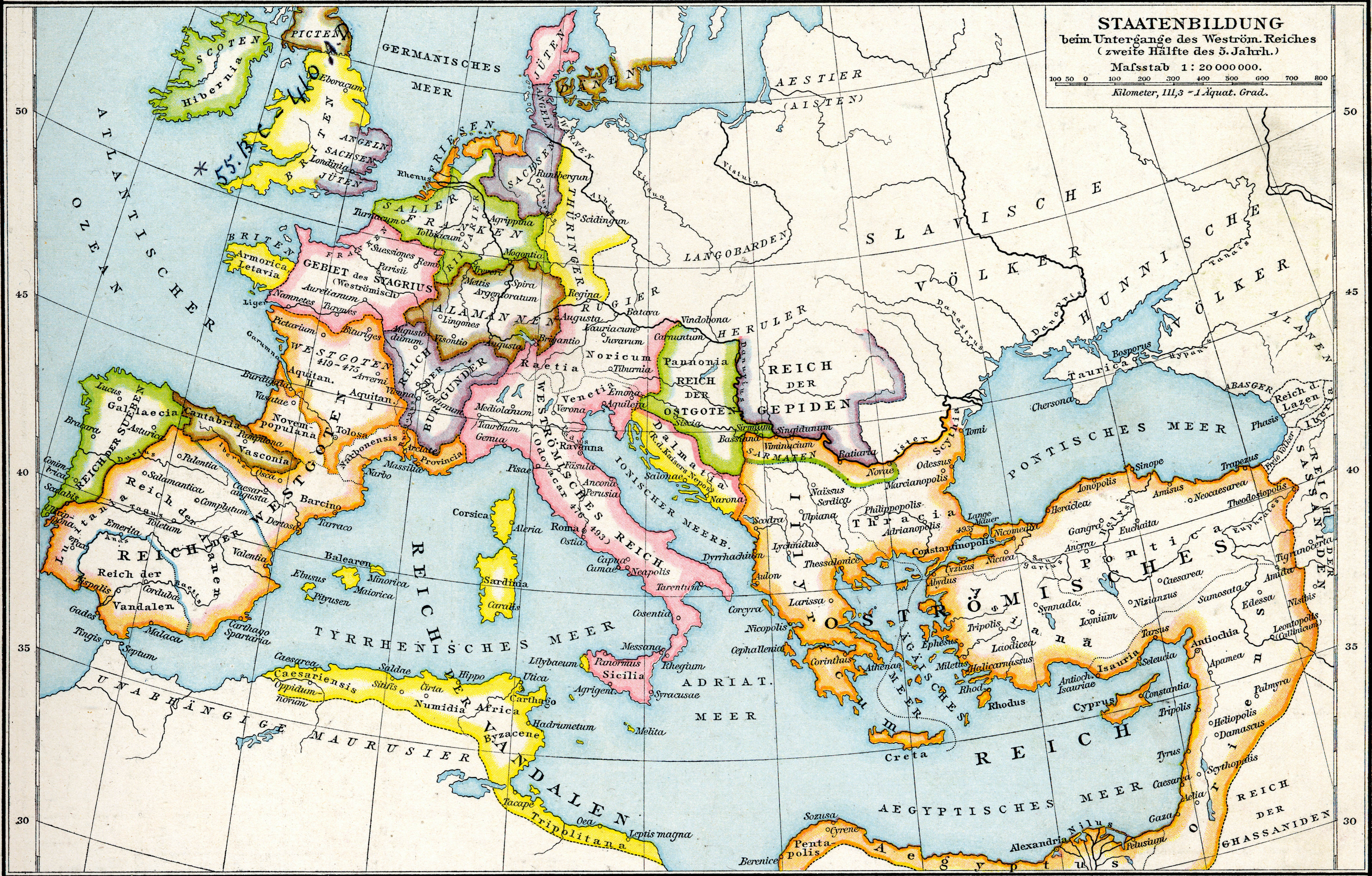 Second map (of four) from plate 19 of Professor G. Droysens Allgemeiner Historischer Handatlas, published by R. Andrée.